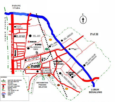 Map of Administrative District of Padang Timur, Padang City, West Sumatra Province